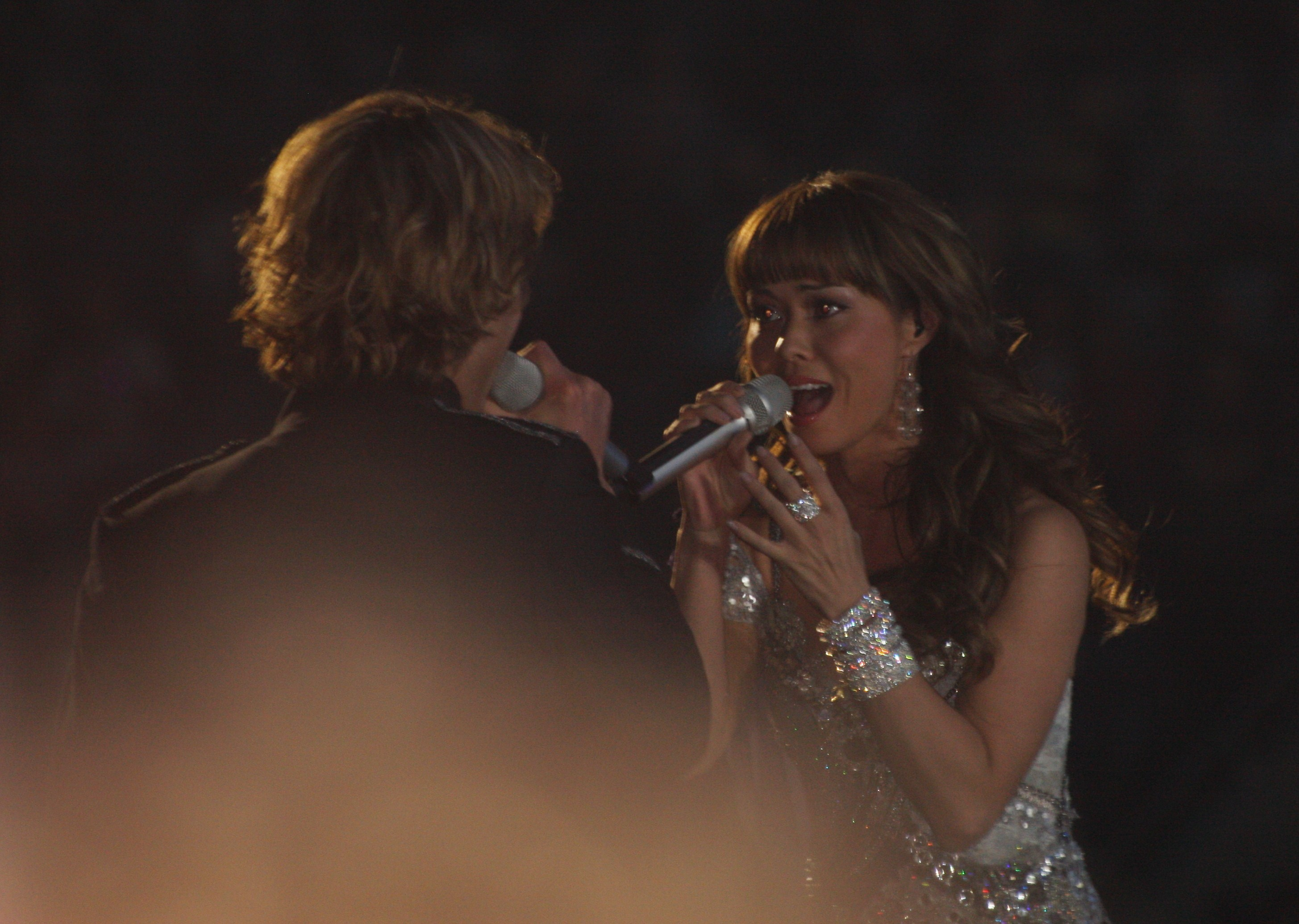 Christina Chanée, artist of Denmark in Eurovision Song Contest 2010, rehearsal, Telenor Arena. Norway.